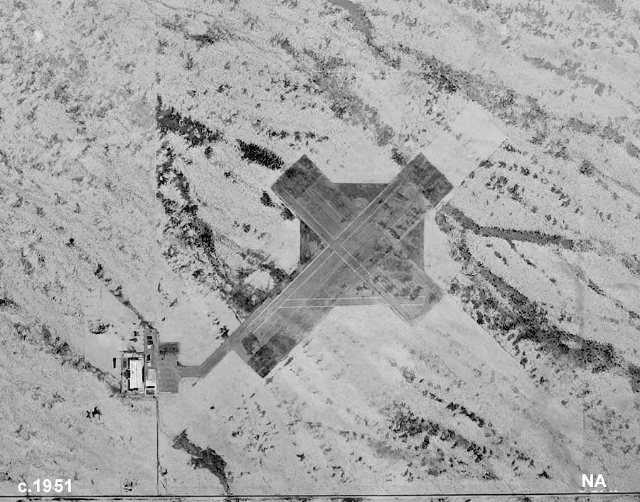 Echeverria Field, Arizona - Aireal 1951